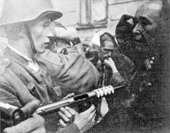 Warsaw Uprising: One of the German POW's from PAST-a building at Zielna 37 street, was SS-Sturmscharführer, who supposedly was terrorizing other defenders.